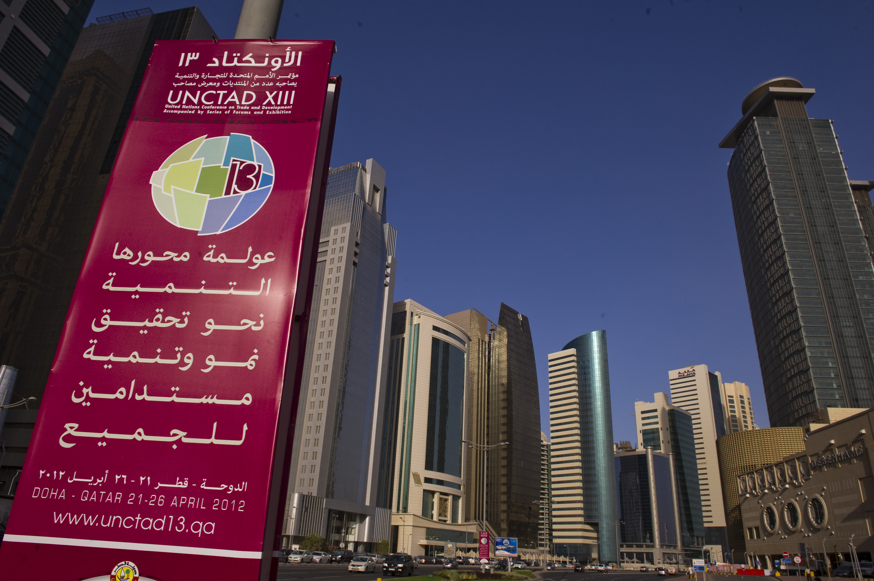 Doha City, UNCTAD XIII